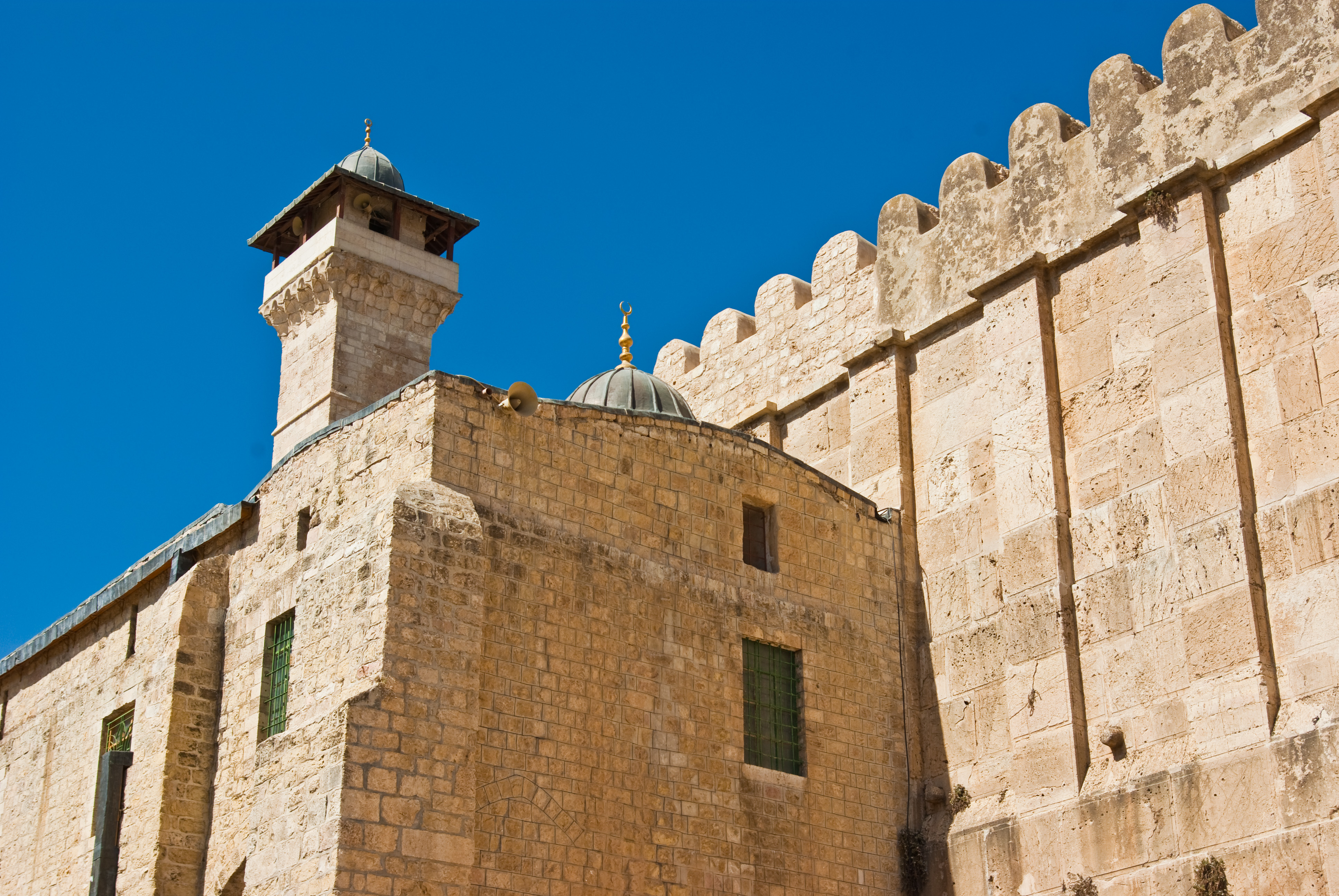 Cave of the Patriarchs